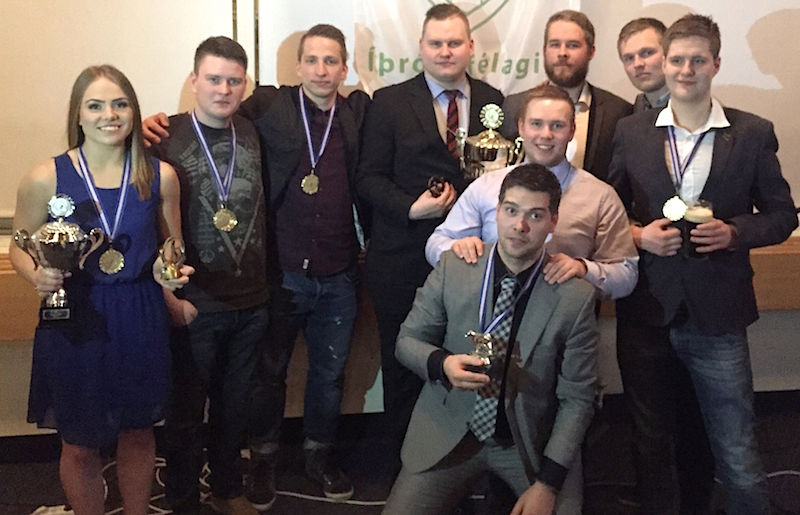 Verðlaunarhafar á lokahófi IF. Milan